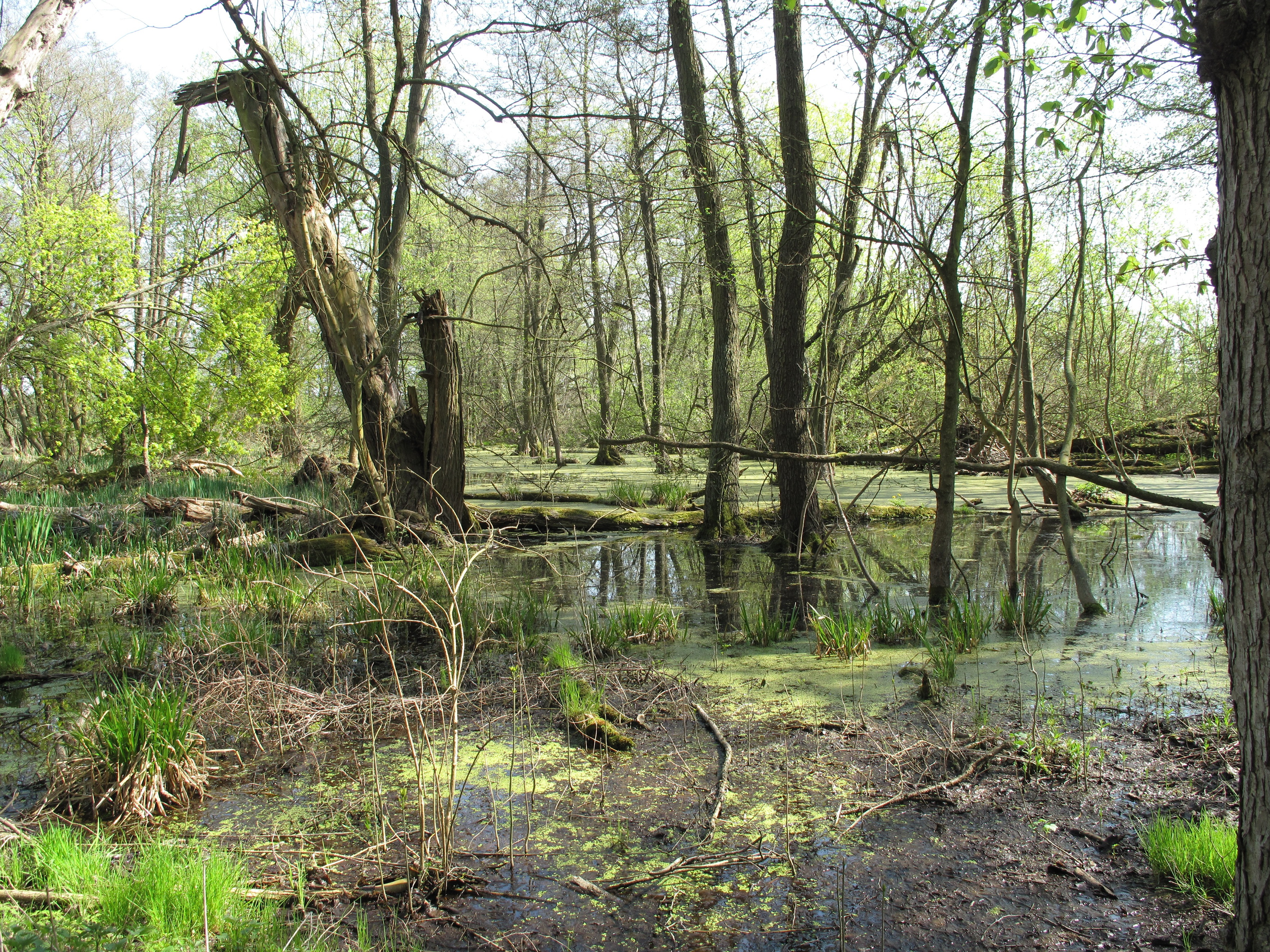 Remains of a low moor-area in the west of the Kietzer See/Stobber in the Europäisches Vogelschutzgebiet Altfriedländer Teich- und Seengebiet, a European bird protection area (SPA) around Altfriedland, a village of the municipality Neuhardenberg in the District Märkisch-Oderland, Brandenburg, Germany.